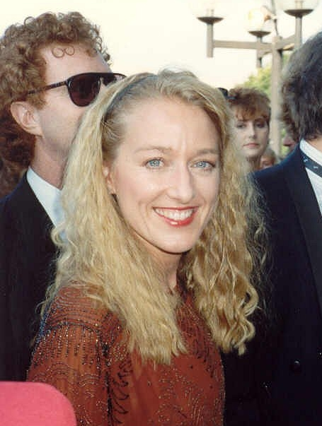 Patricia Wettig at the 41st Annual Emmy Awards